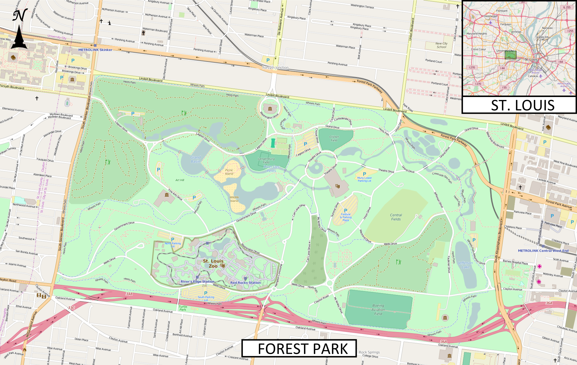 This map of Forest Park (St. Louis) was created from OpenStreetMap project data, collected by the community. The image should remain clear of any additional edits. To annotate the map for an article, use the Infobox or Location Map template and reference the map using map module Forest Park (St. Louis). This map may be incomplete, and may contain errors. Submit corrections to the below source link. Do not rely solely on the map for navigation. To the top right is an insert showing the location of the park within St. Louis. Image for Map Module : Forest Park (St. Louis) Latitude north = 38.65238 Latitude south = 38.62807 Longitude west = -90.30883 Longitude east = -90.25961 Map symbology